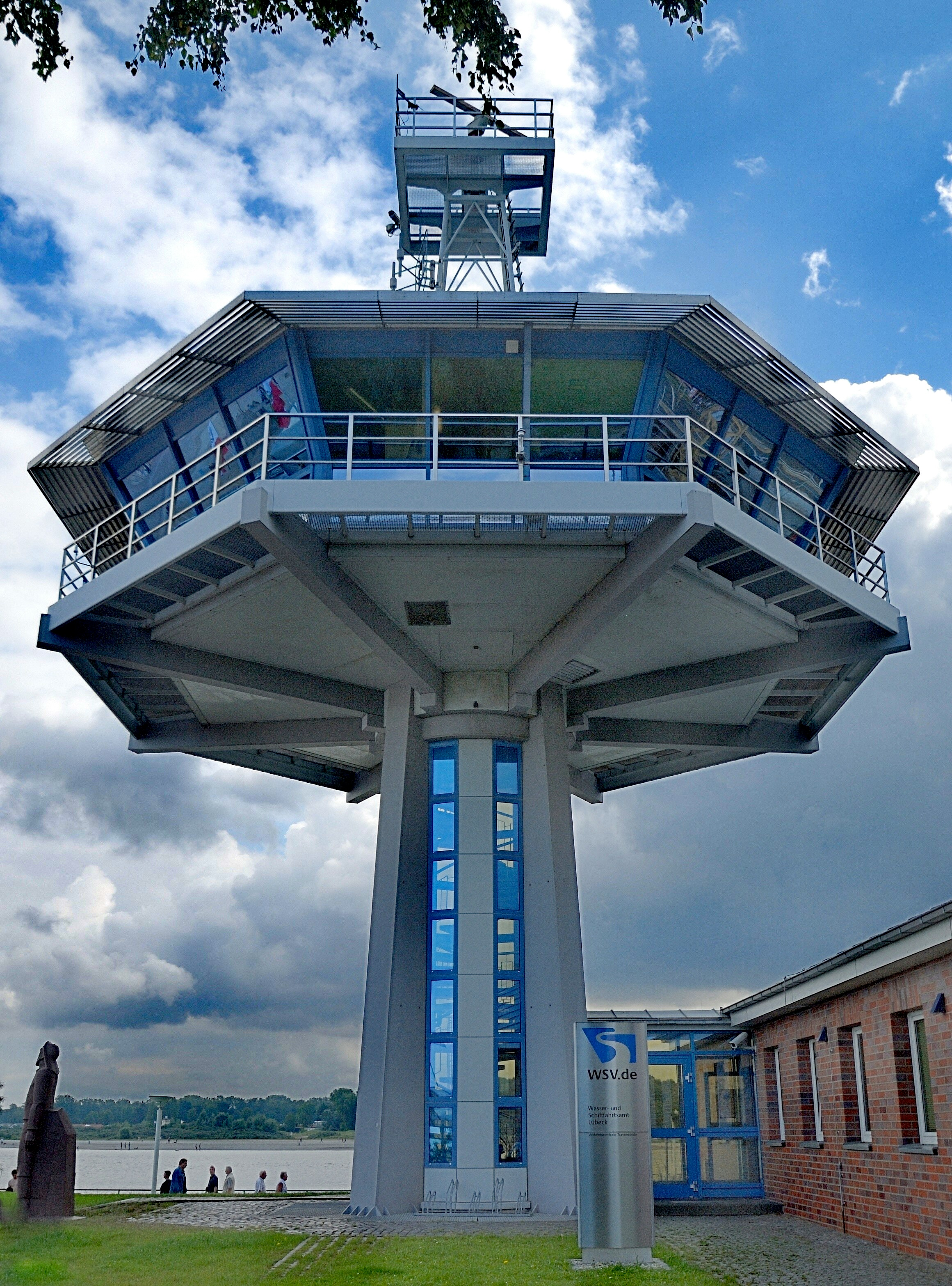 Control tower of the marine traffic center, Wasser- und Schifffahrtsamt Lübeck, Germany